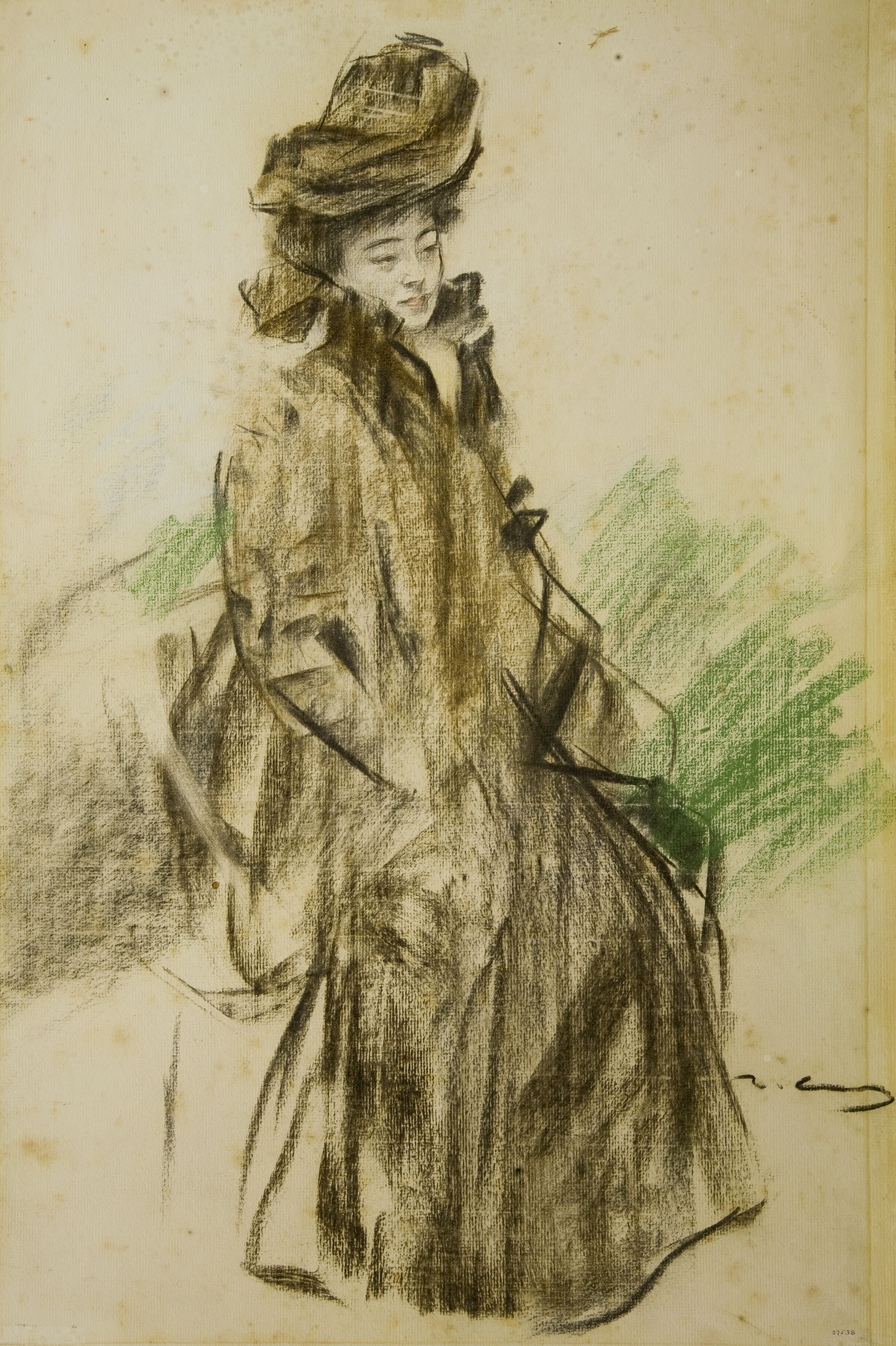 Portrait by Ramon Casas conserved at MNAC in Barcelona.